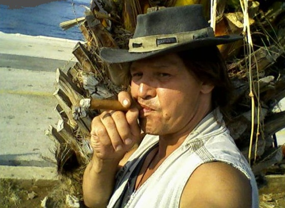 Martin Havelka